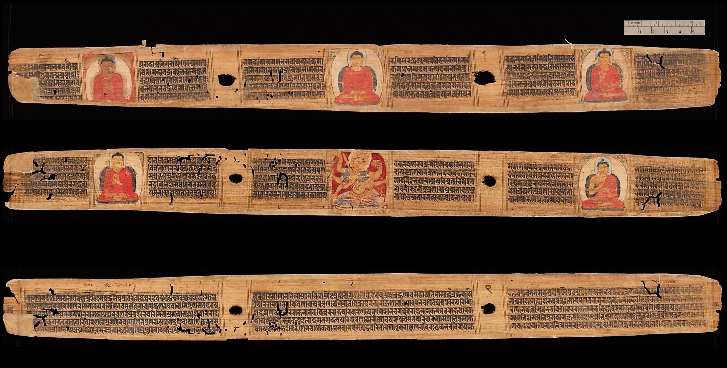 The Pancaraksa means "Five Protections", and it is the title of a Buddhist text in Sanskrit. It is an early work in the dharani genre of Buddhist literature, with Tibetan records mentioning it by about 800 CE. However, there are significant variations in the recensions of the Pancaraksa manuscripts found in different Buddhist monasteries. This manuscript is dated to the 11th-century. Like other Pancaraksha manuscripts, it includes spells, a list of benefits by its recitation, and the ritual instructions on how and when to use it. Each of the "Five" protections, are Buddhist deities (goddesses), though the text does not mention any of these goddesses by name. The text is notable for the 36 miniature Buddhist painting illustrations, finely done. The text is evidence of ritualism in Buddhist traditions. Daniel Wright purchased this manuscript sometime between 1873–6 in the Bengal region. The manuscript is now preserved as MS Add.1688 at the Cambridge University LIbrary. Language: Sanskrit Script: Pala The photo above is of a 2D manuscript artwork created about 900 years ago, itself a copy from a text that was authored earlier. The artwork and this 2D photograph, therefore, fall under Wikimedia Commons PD-Art licensing guidelines. Any rights I have as a photographer is herewith donated to wikimedia commons under CC 4.0 license.